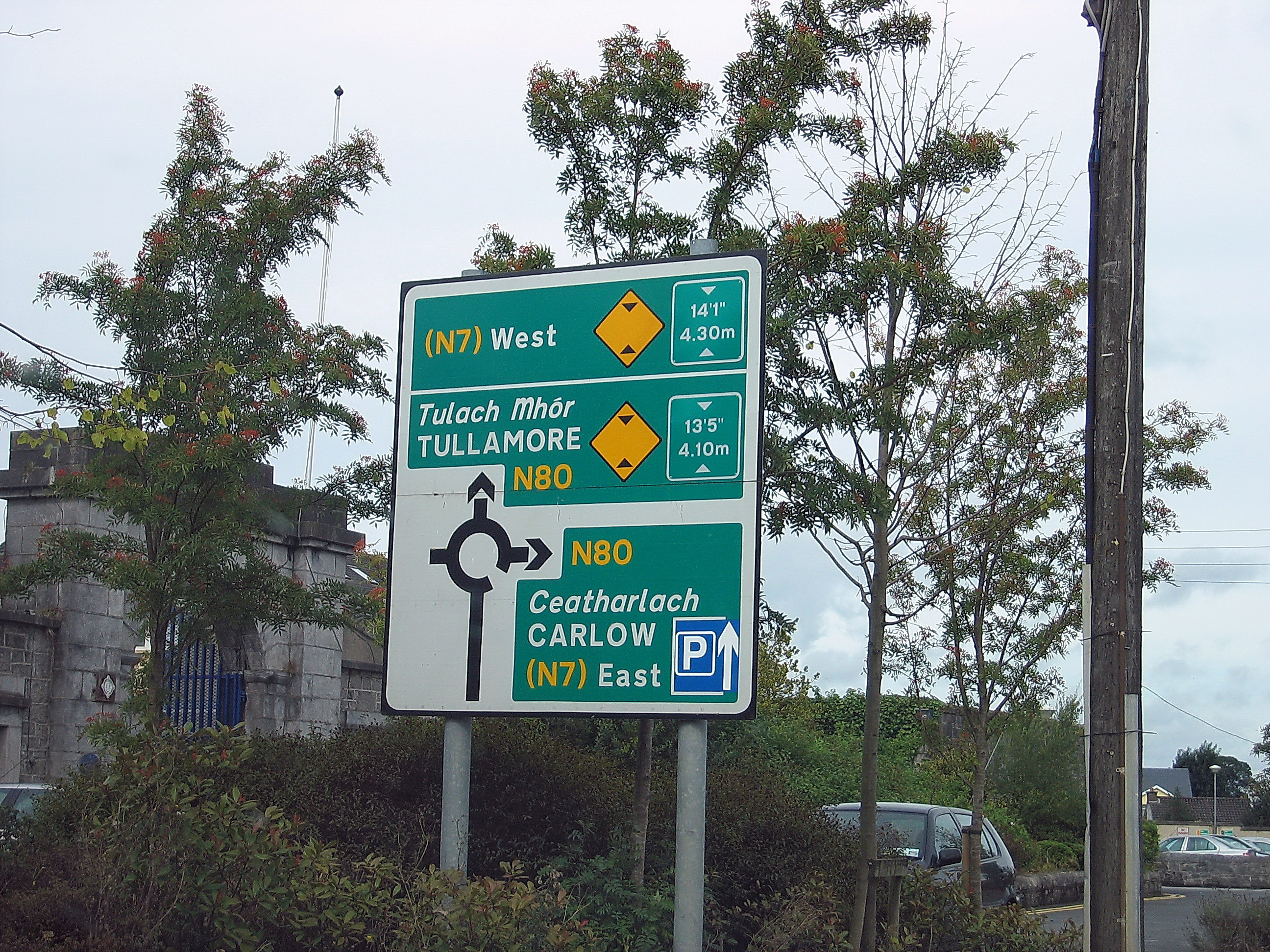 Typical Irish roadsign at roundabout junction in Portlaoise. Explanation of symbols/colours: The background of the sign, in this case white (Regional Road (Rxxx)/local road (Lxxxx)), is based on the colour code for the road the sign/motorist is on. The black-on-white diagram represents the roundabout ahead and the roads radiating from it. The long black line indicates the direction of approach. In this case the first exit from the roundabout is a local (unsignposted) road to the left. The second exit is the N80 leading to Tullamore and access to the N7 west. This area is "patched" green as the N80 and N7 are both National Routes. The third exit is the N80 leading to Carlow and Access to the N7 east. This area is also "patched" green as the N80 and N7 are both National Routes. The gap in the "roundabout symbol" is to indicate that the next road is the one you are already on. You could use the roundabout to do a U-turn, provided you are not on a one-way street! On the N80, heading for Tullamore and also on a section of the N7 heading west there there are low bridges. This is highlighted by typical black-on-yellow diamonds and the heights (in feet and in meters) are given alongside the yellow warning diamonds. At the bottom right is a sign for a car parking facility.